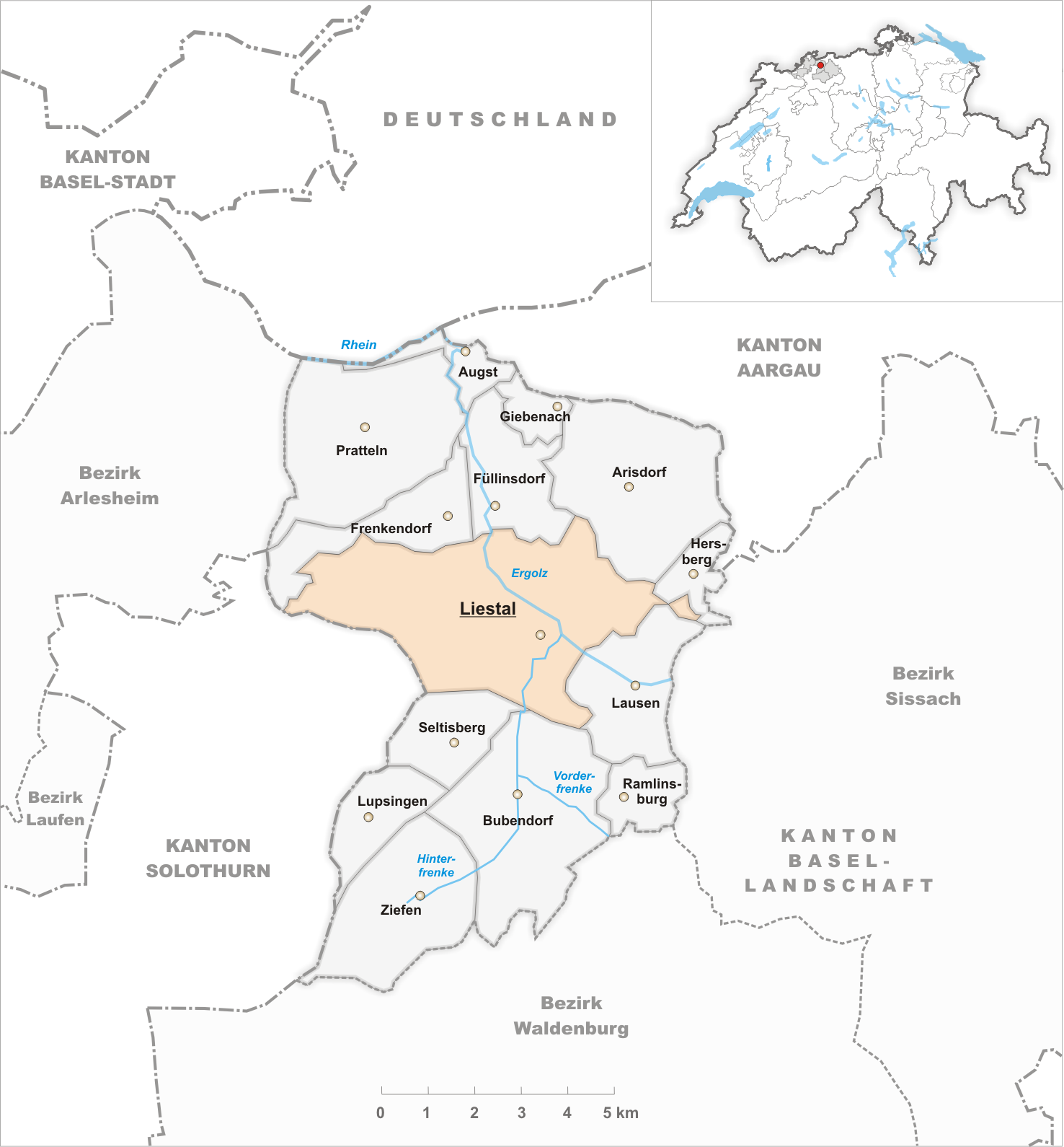 Municipality Liestal